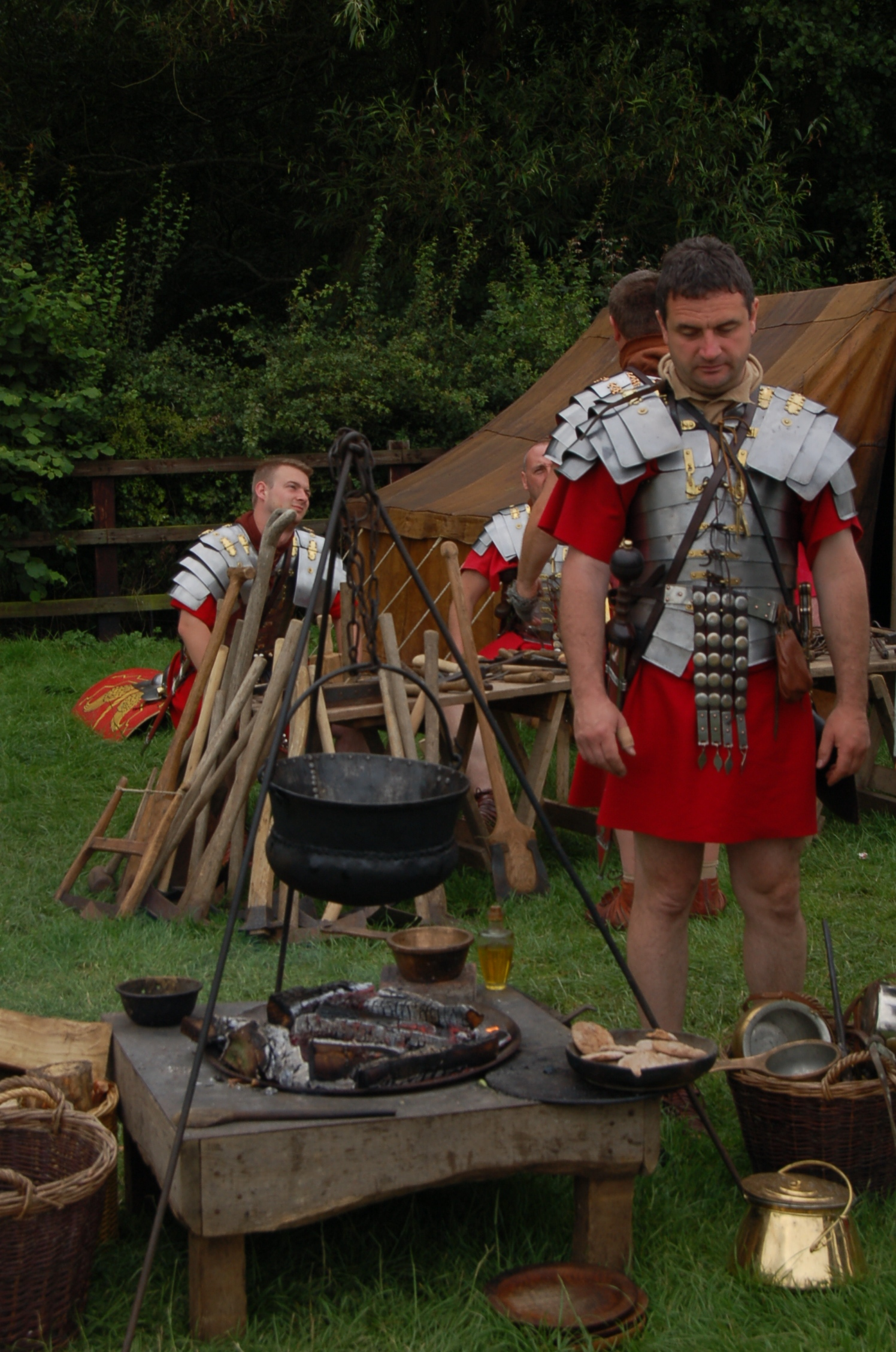 reenactment of a Roman army camp